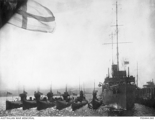 Sydney, NSW. Six J class submarines can be seen moored to their depot ship, HMAS Platypus. The ex-British submarines had recently arrived to join the Royal Australia Navy